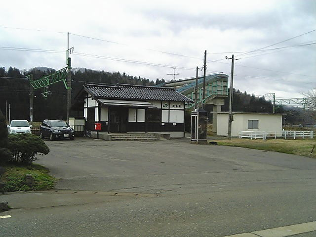 Kitajō Station, Kashiwazaki, Niigata, Japan